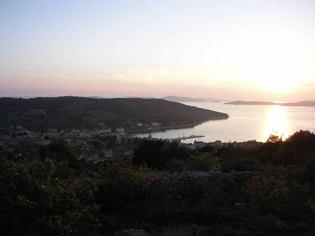 Zlarin is a small island of the Dalmatian coast of Croatia